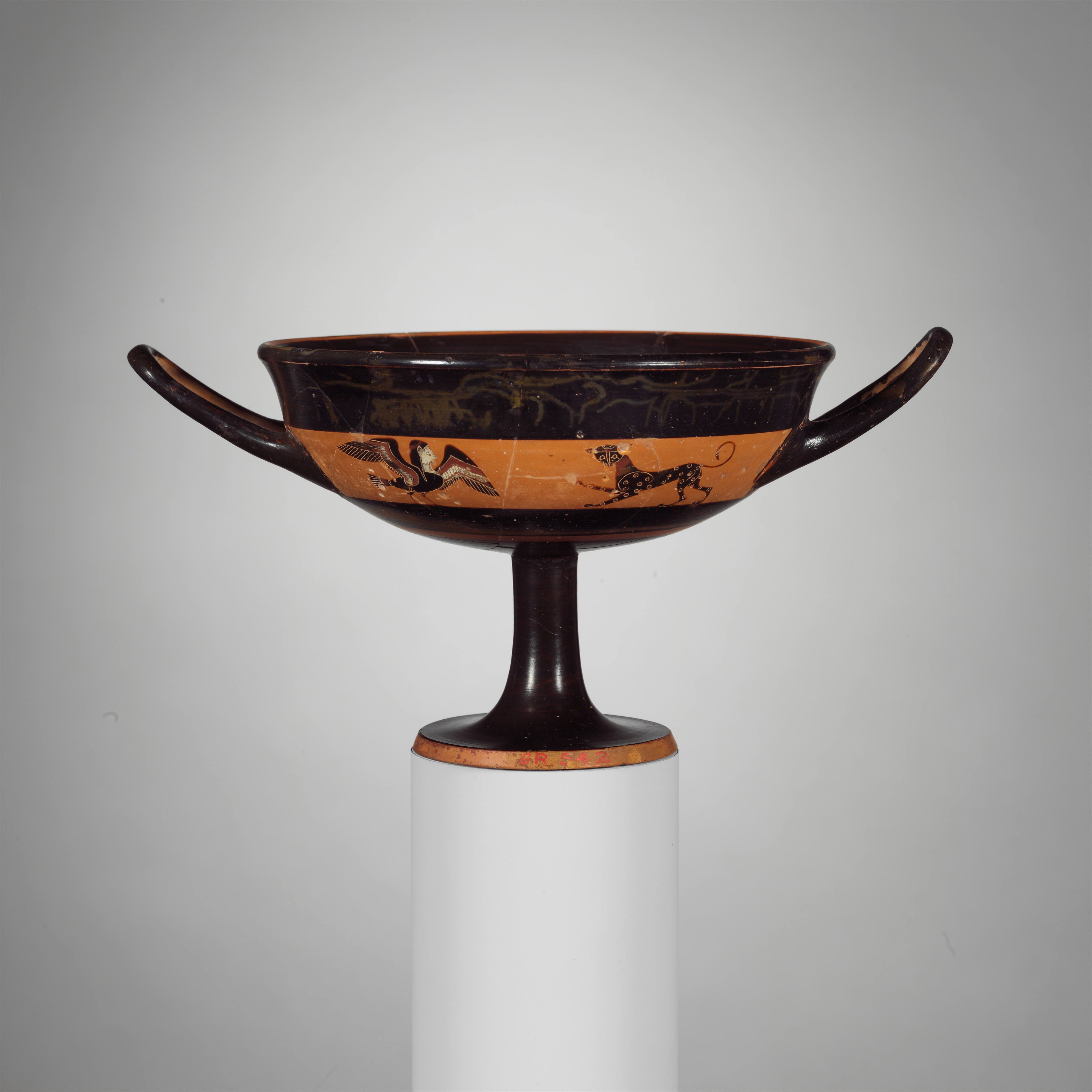 Greek, Attic; Kylix, band-cup; Vases